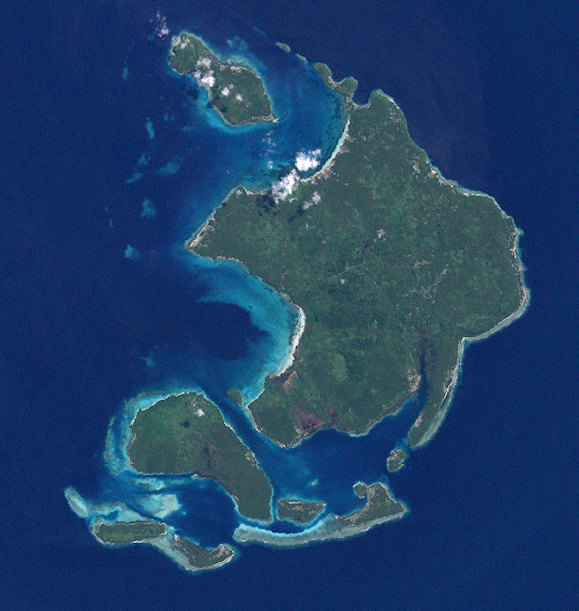 This satellite image (Landsat 7) shows the Duke of York Island group, Bismarcksea, Papua New Guinea Merged and croped six tiles from